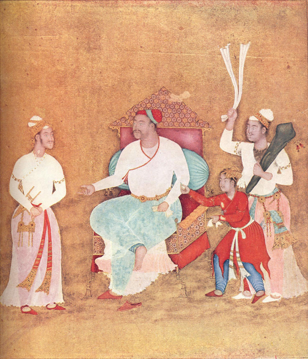 Burhan Nizam Shah II was the 7th king of Ahmadnagar.